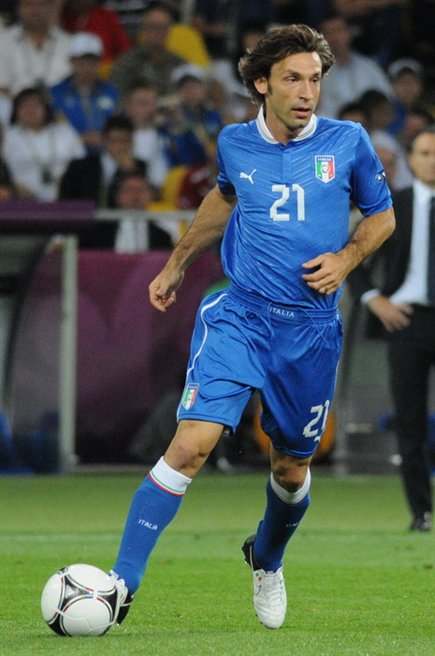 Andrea Pirlo at Euro 2012 match against England